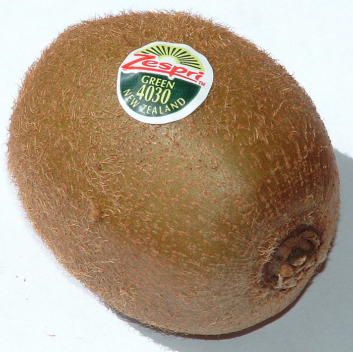 Mature kiwiftuit ready for market. Photo takedn by Moriori and released into the public doman